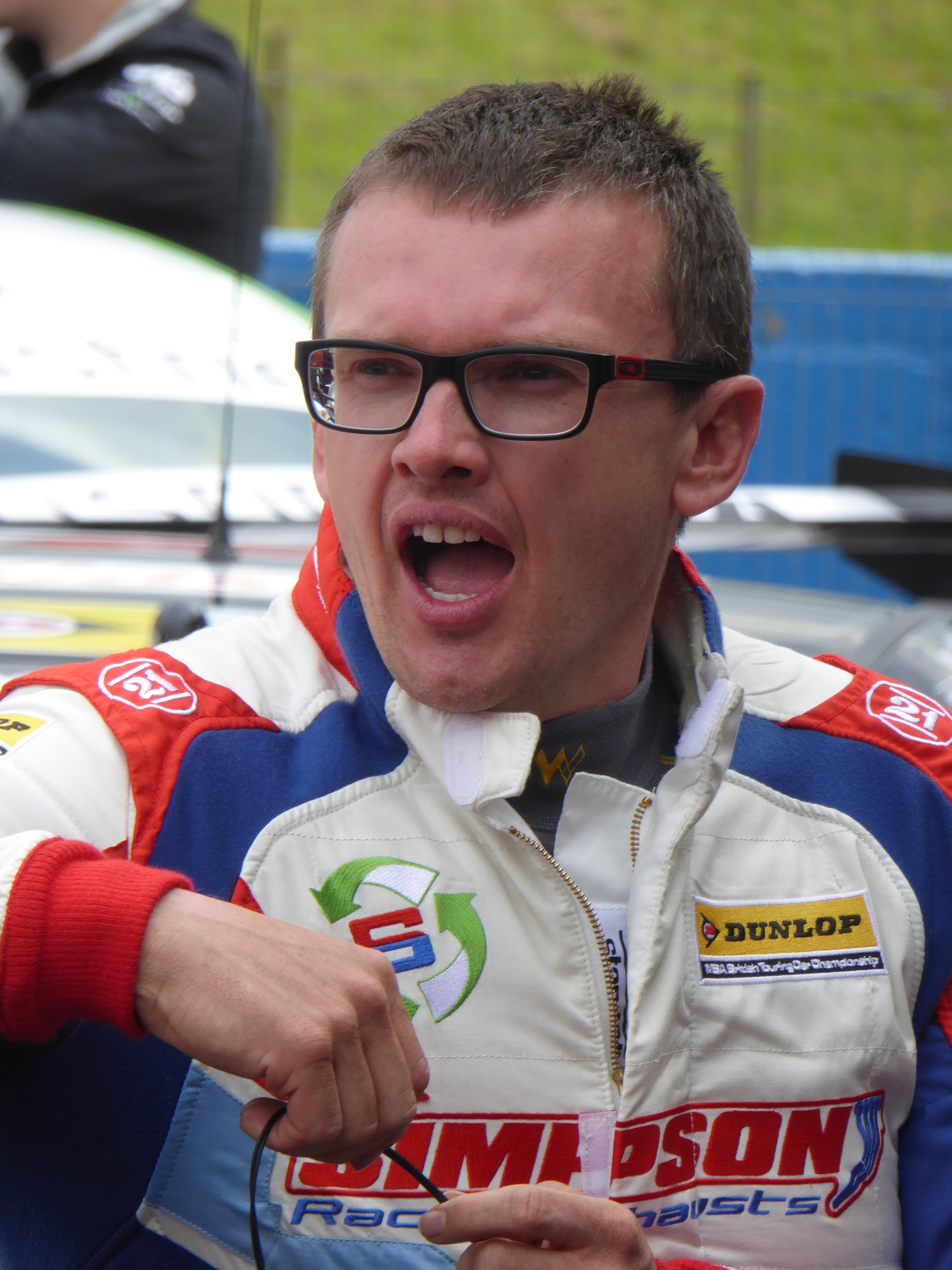 Matt Simpson (Simpson Racing), at the Knockhill round of the 2017 British Touring Car Championship.